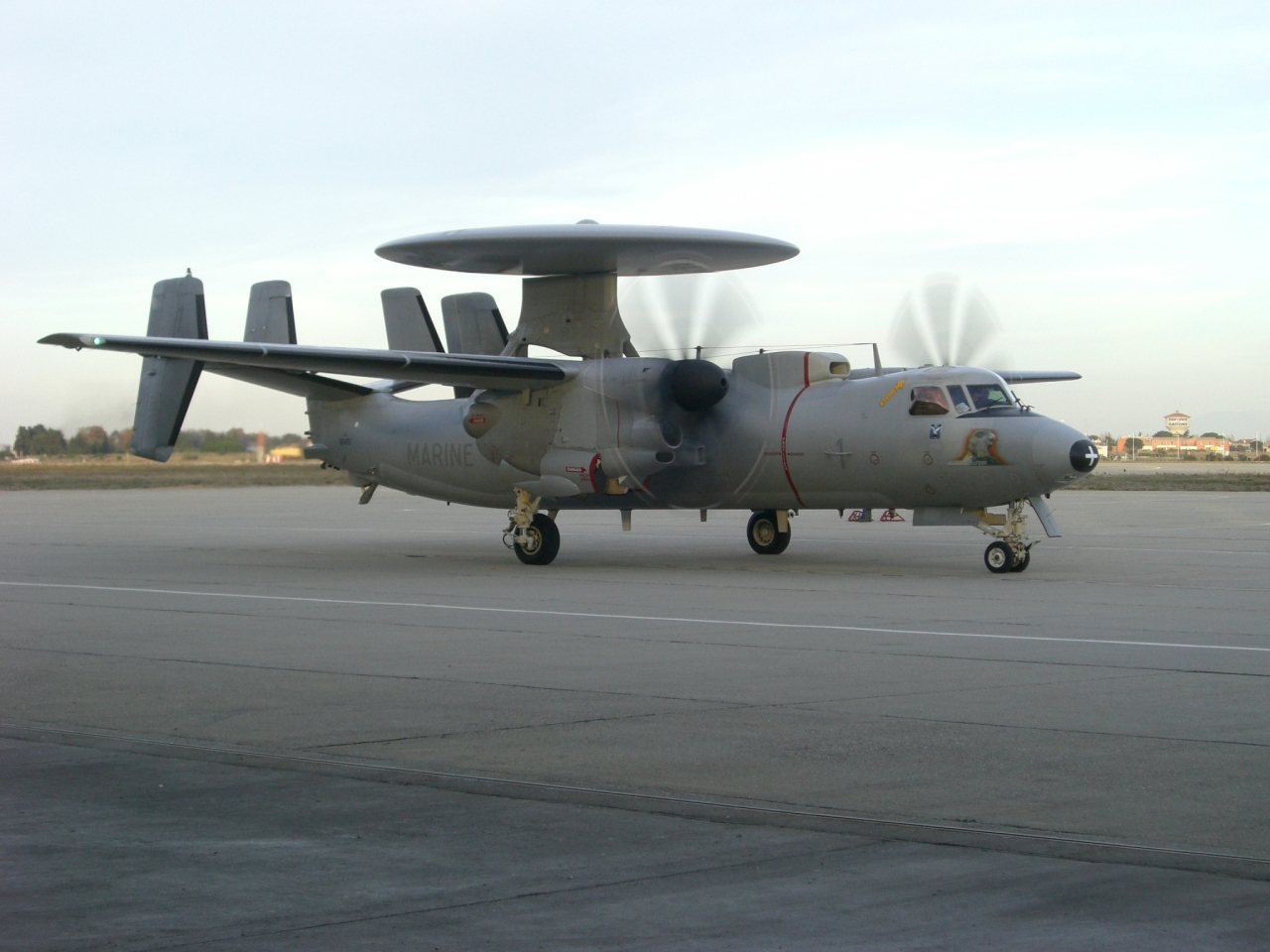 E2C Hawkeye n°1 of the french navy, shooted at the Nîmes-Garons french naval base.